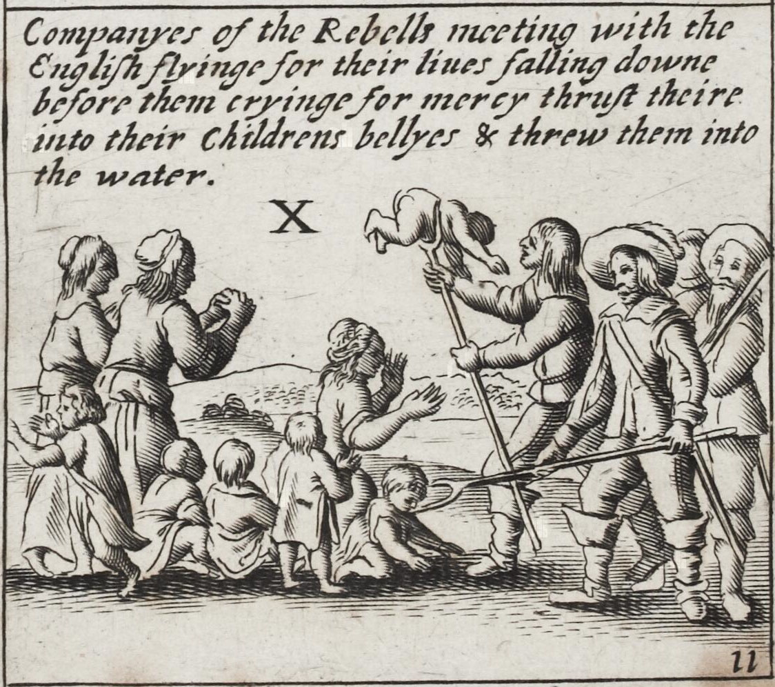 "Companyes of the Rebells meeting with the English flyinge for their lives falling downe before them cryinge for mercy thrust theire into their childrens bellyes & threw them into the water." Depiction of supposed Irish atrocities during the Rebellion of 1641